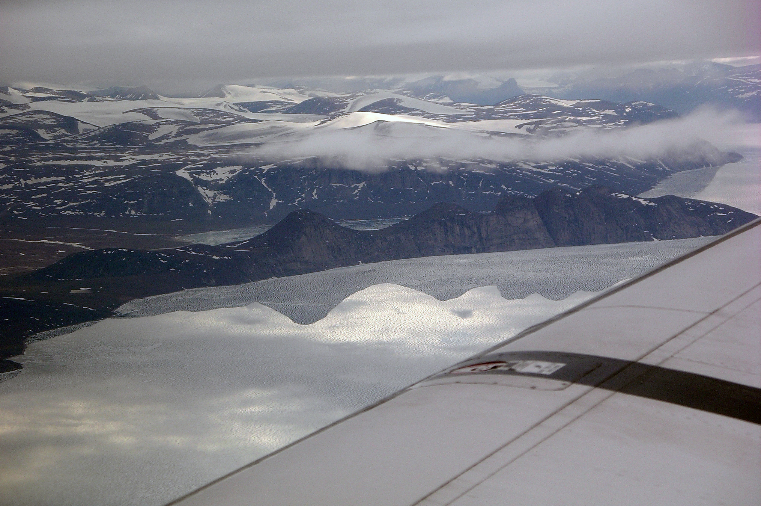 Ice has just about melted